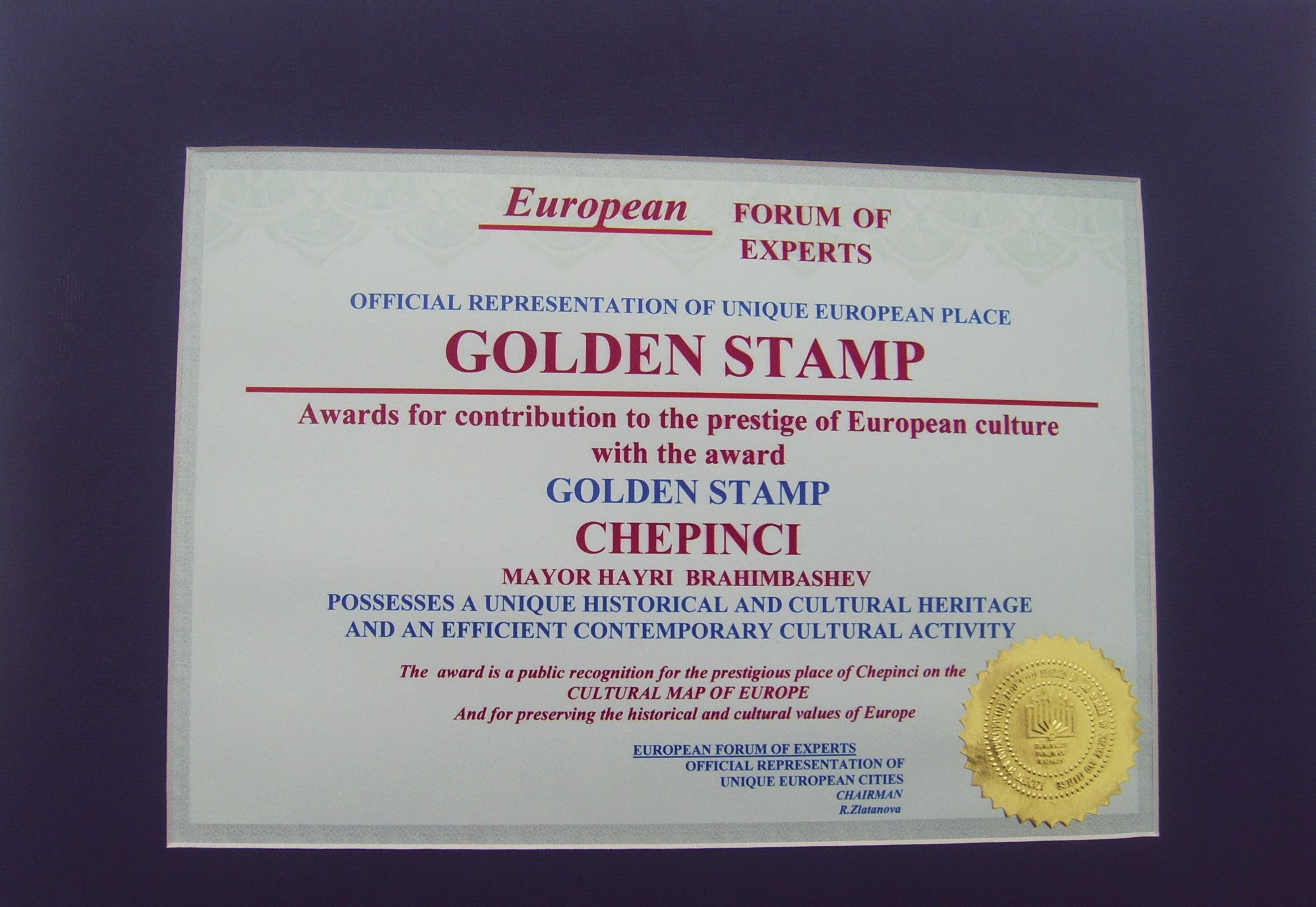 Picture of special Gramota of Chepintsi.